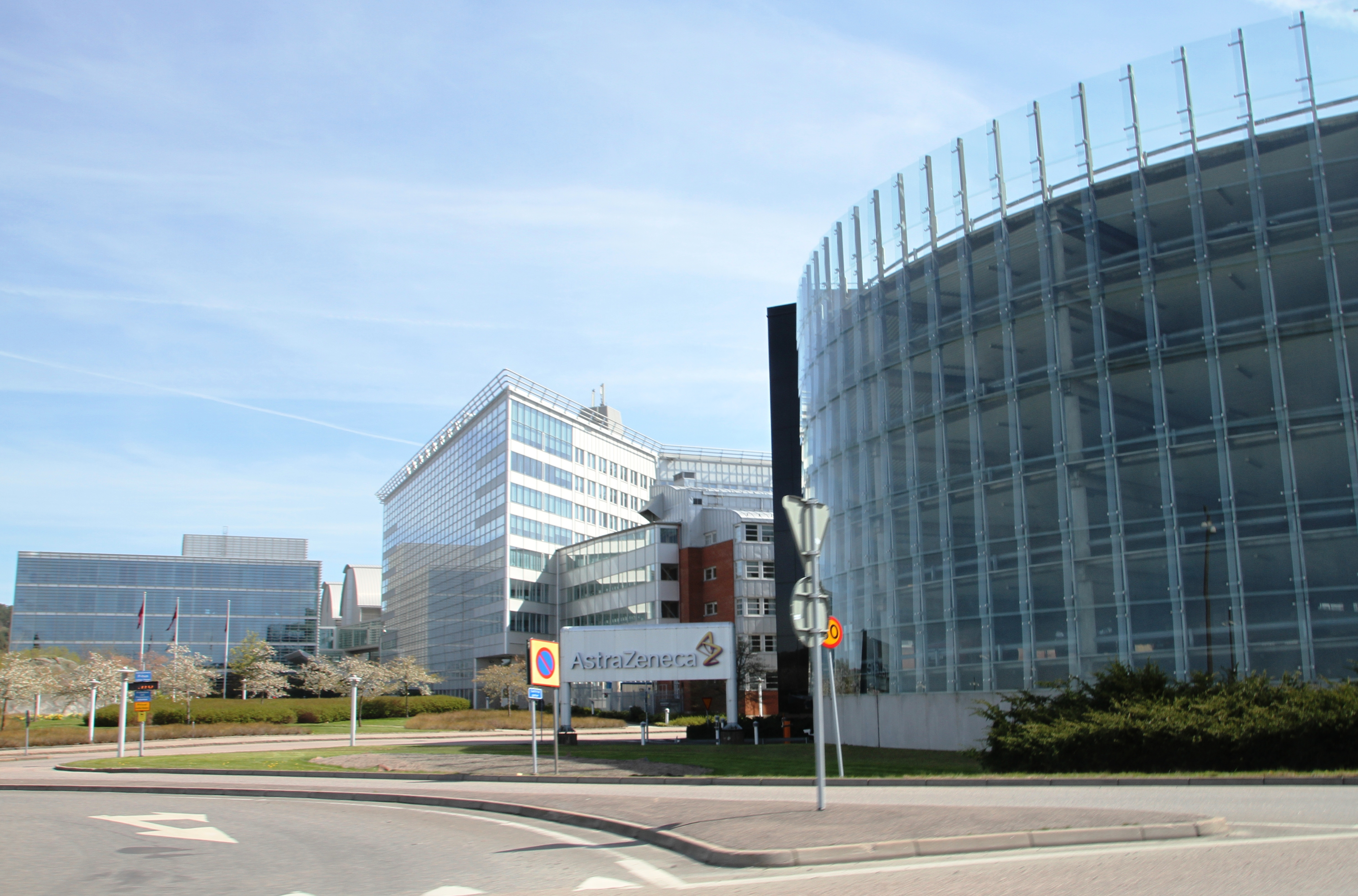 Astra Zeneca headquarters in Mölndal, Southern Gothenburg (Sweden)